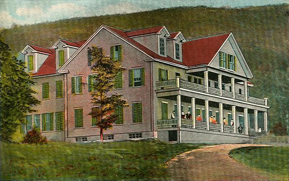 Winslow House, Mount Kearsarge, NH; from a c. 1900 postcard. The hotel was named for Admiral John Winslow, commander of the USS Kearsarge during the Civil War. Destroyed by fire, the hotel was located at what is today the picnic area of Winslow State Park.